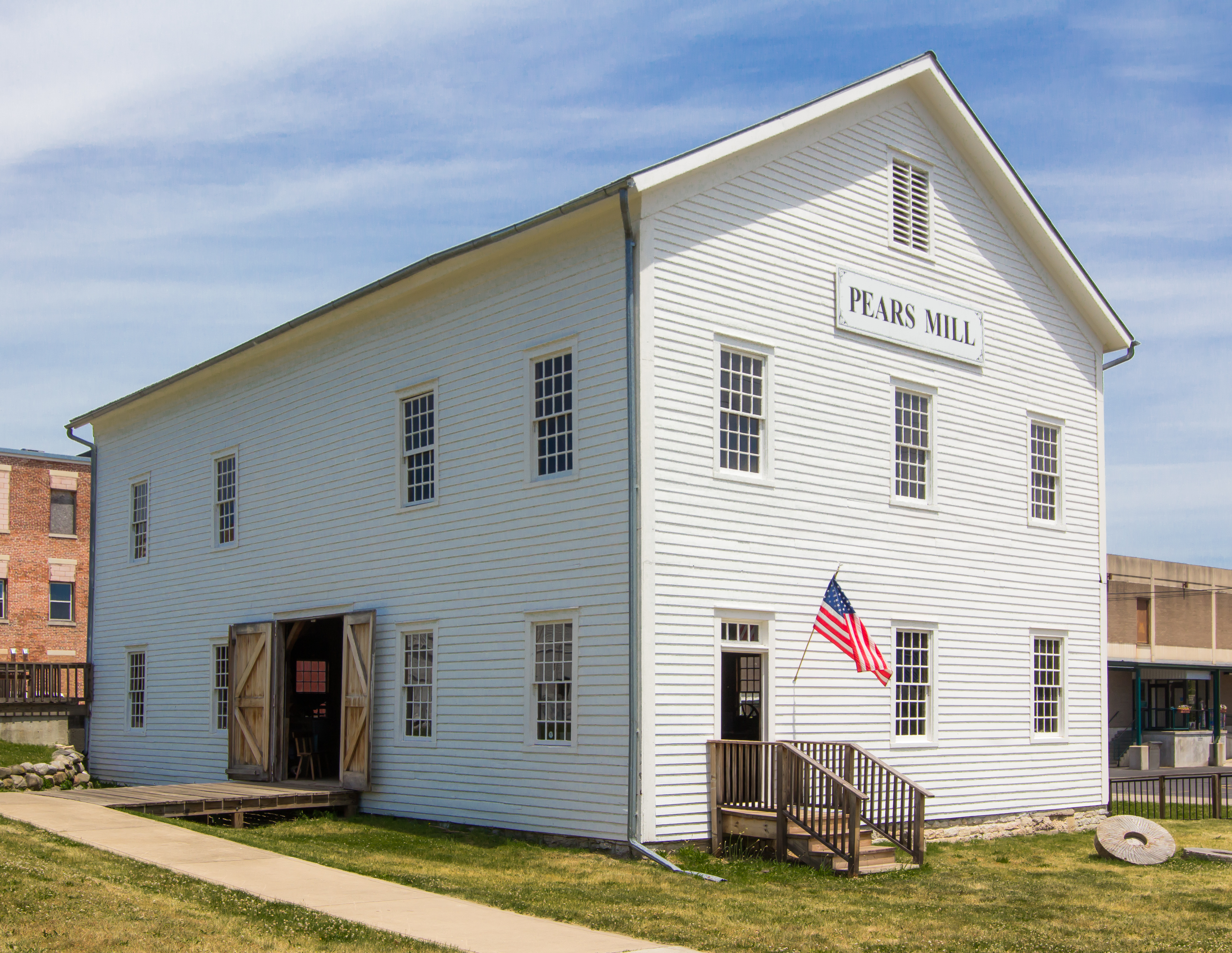 Pears Mills